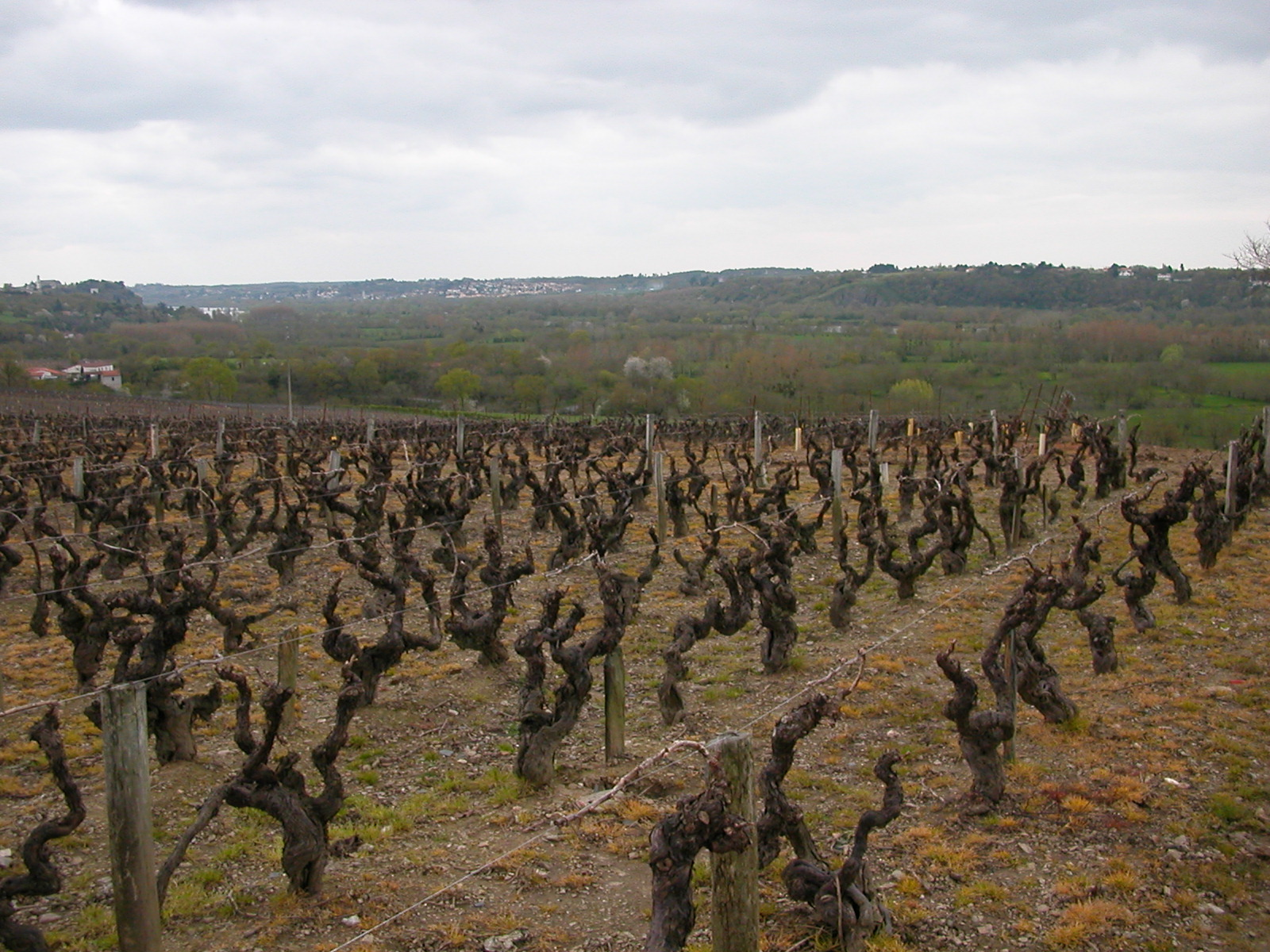 Vineyard in Anjou in the French wine region of the Loire Valley.